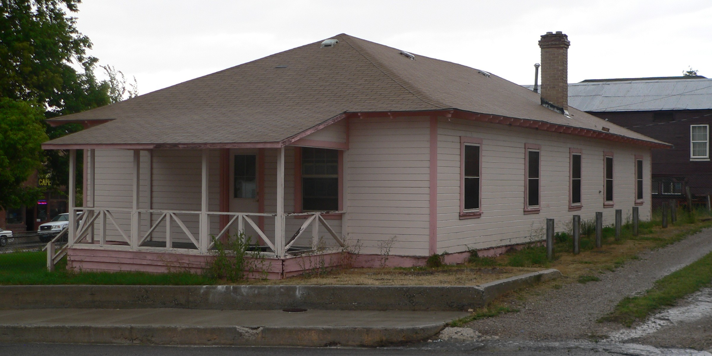 American Legion hall, located near northeast corner of Fourth Street and Avenue J in McGill, Nevada; seen from the south, looking obliquely across J.